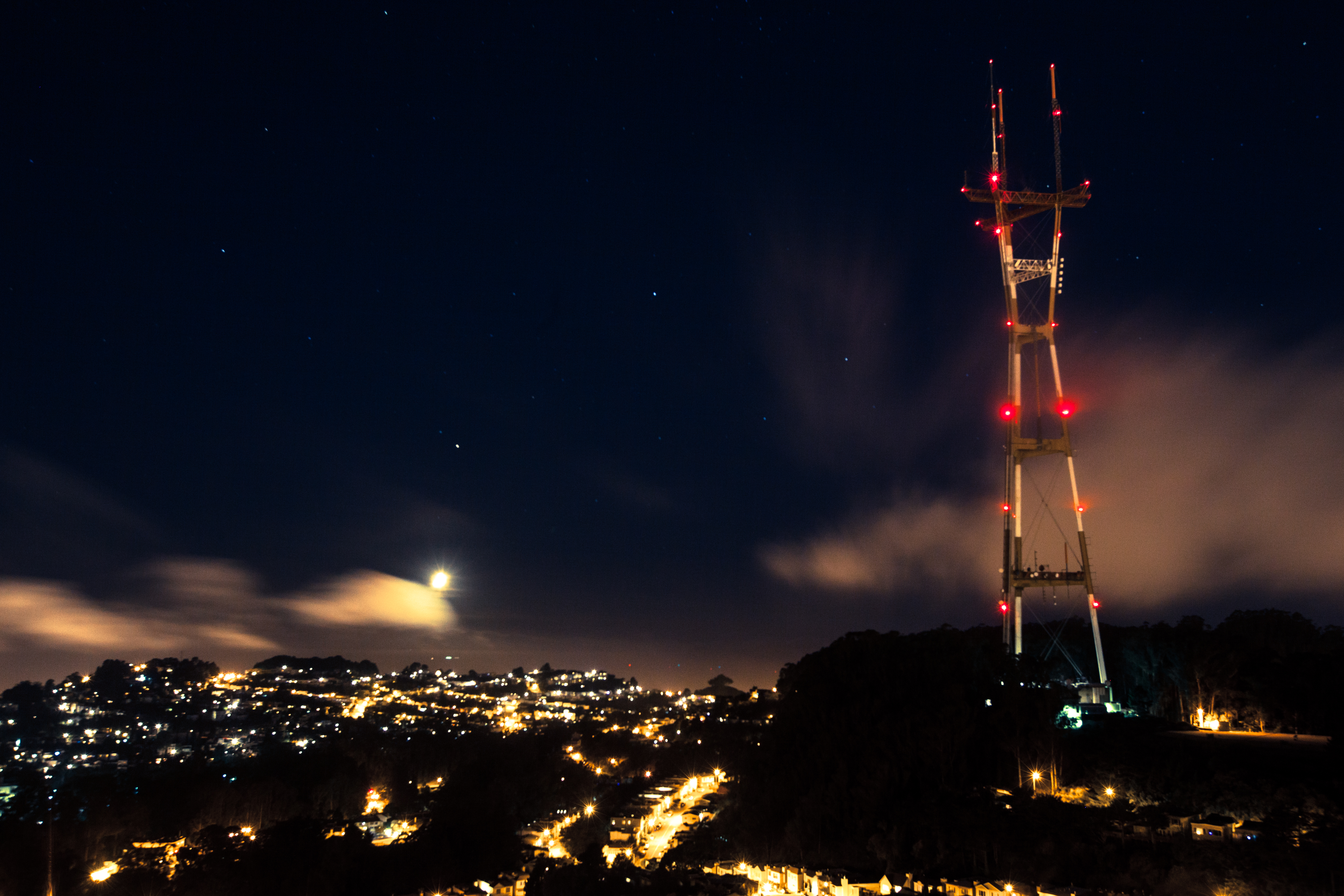 Sutro Tower, as viewed from Twin Peaks in San Francisco, California.